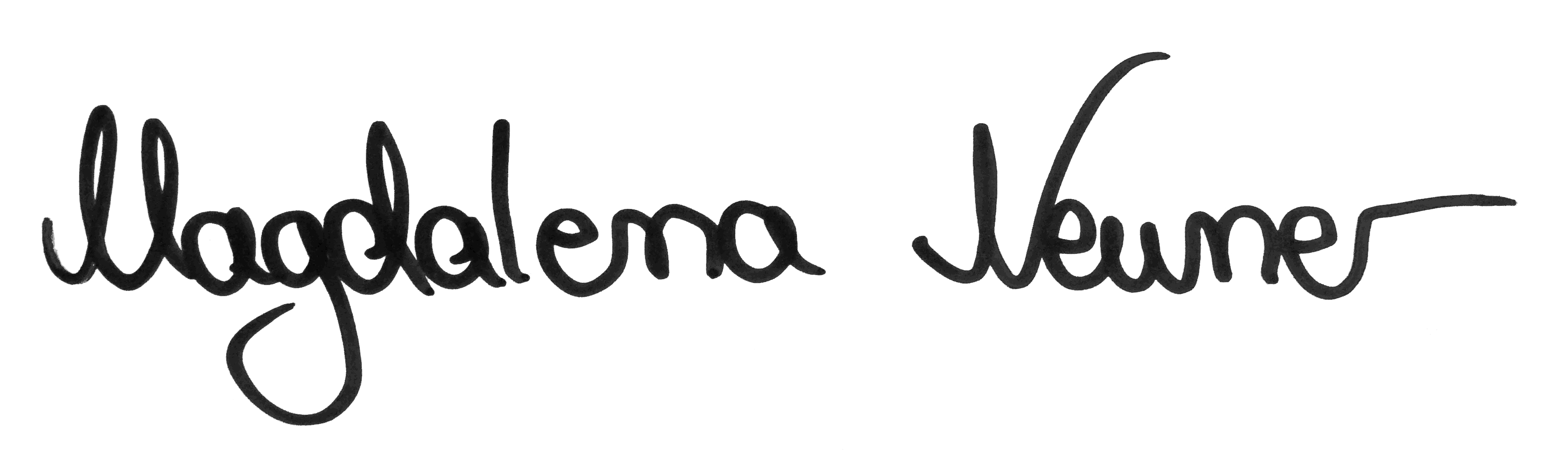 Signature of German biathlete Magdalena Neuner (enhanced from an autograph card)